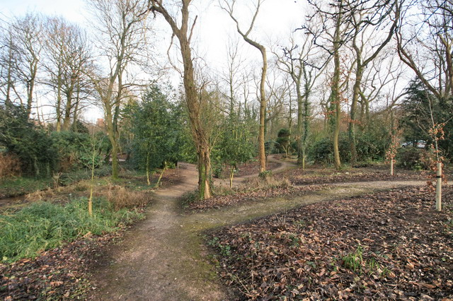 Salisbury Woodland Gardens Acquired by Blackpool Council in 1924 for an arboretum and shelter belt for the golf course, it was designated a County Biological Heritage Site in 1993 for its epiphytic flora. Now managed by Blackpool's Council Ranger Service with assistance from volunteer rangers, Millennium Volunteers and MBW Training (an environmental task force). It had become overgrown, underused and tired, but for the last two years a team of 40+ volunteers, the majority having disabilities, have completely revitalised this hidden gem.